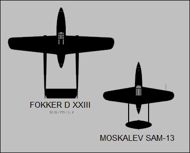 Fokker D XXIII and Moskalev SAM-13 plan silhouettes comparation